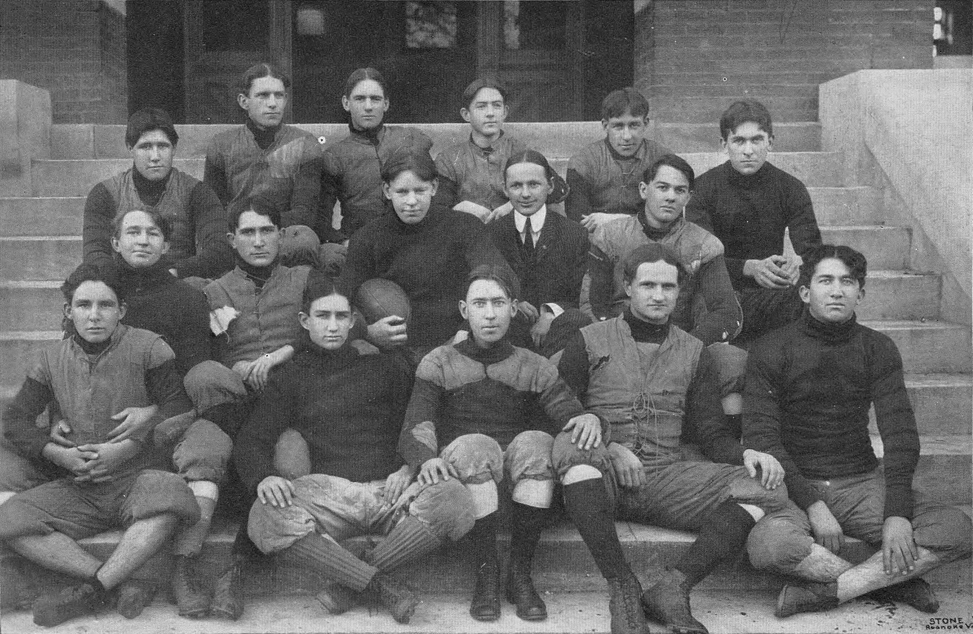 This is the 1903 varsity football team for Auburn University. Pictured are, left to right, front row: Perkins, McEniry, Flournoy, Moon, Boyd. Second row: Reynolds, Seale, Paterson (captain), Hazard (manager), Ward. Third row: McPherson, Pierce, Smith, Camp, Hobby, Merkel.